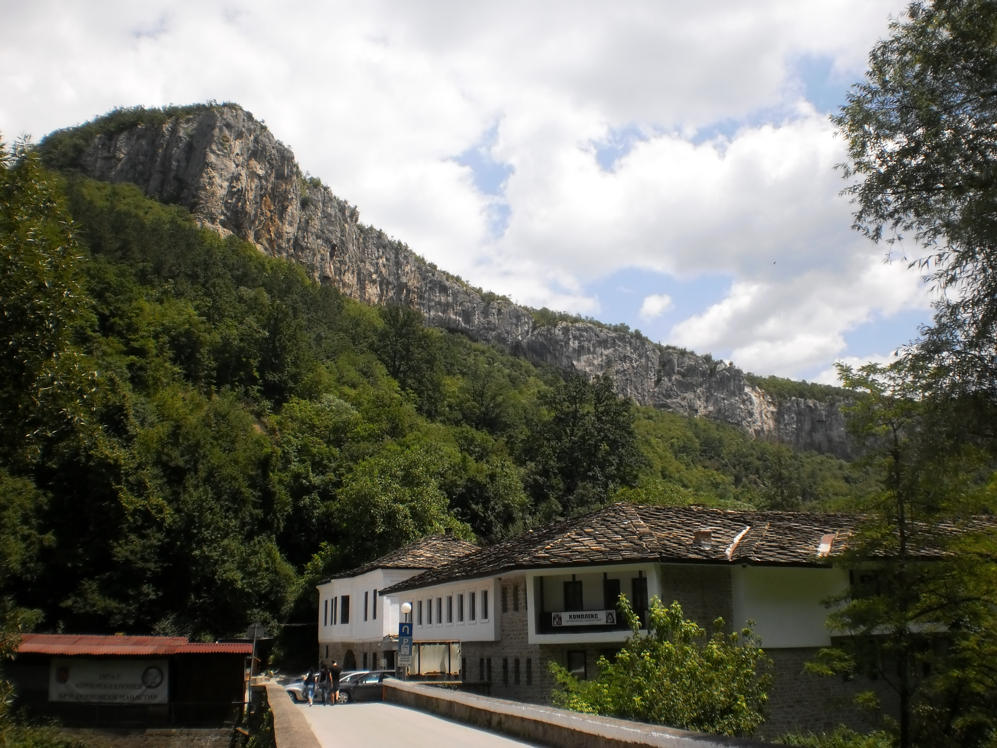 Dryanovo Monastery - entrance